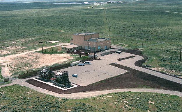 Photo of Experimental Breeder Reactor Number One (EBR-1).